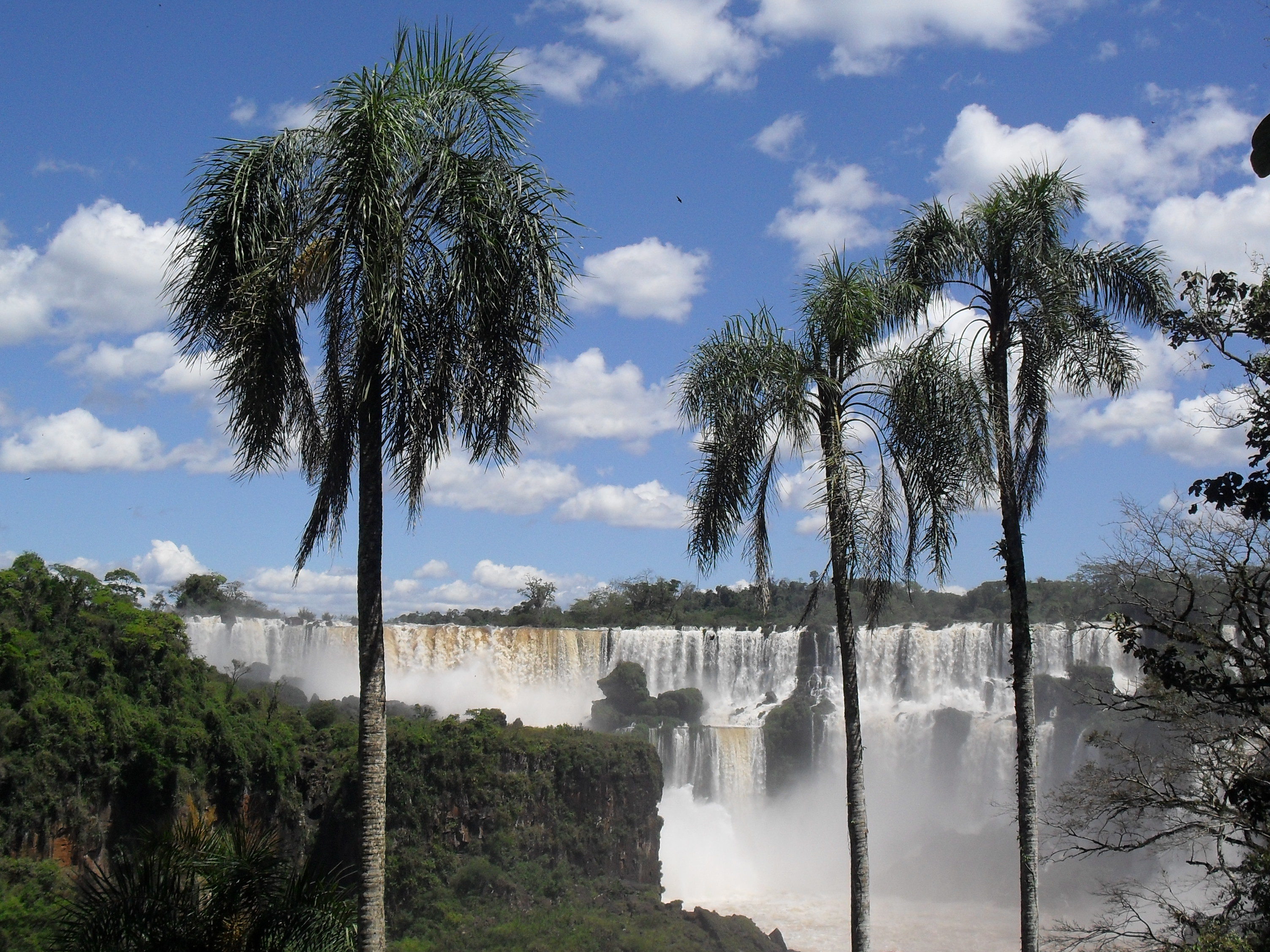 Iguazu Falls, in Misiones (Argentina).